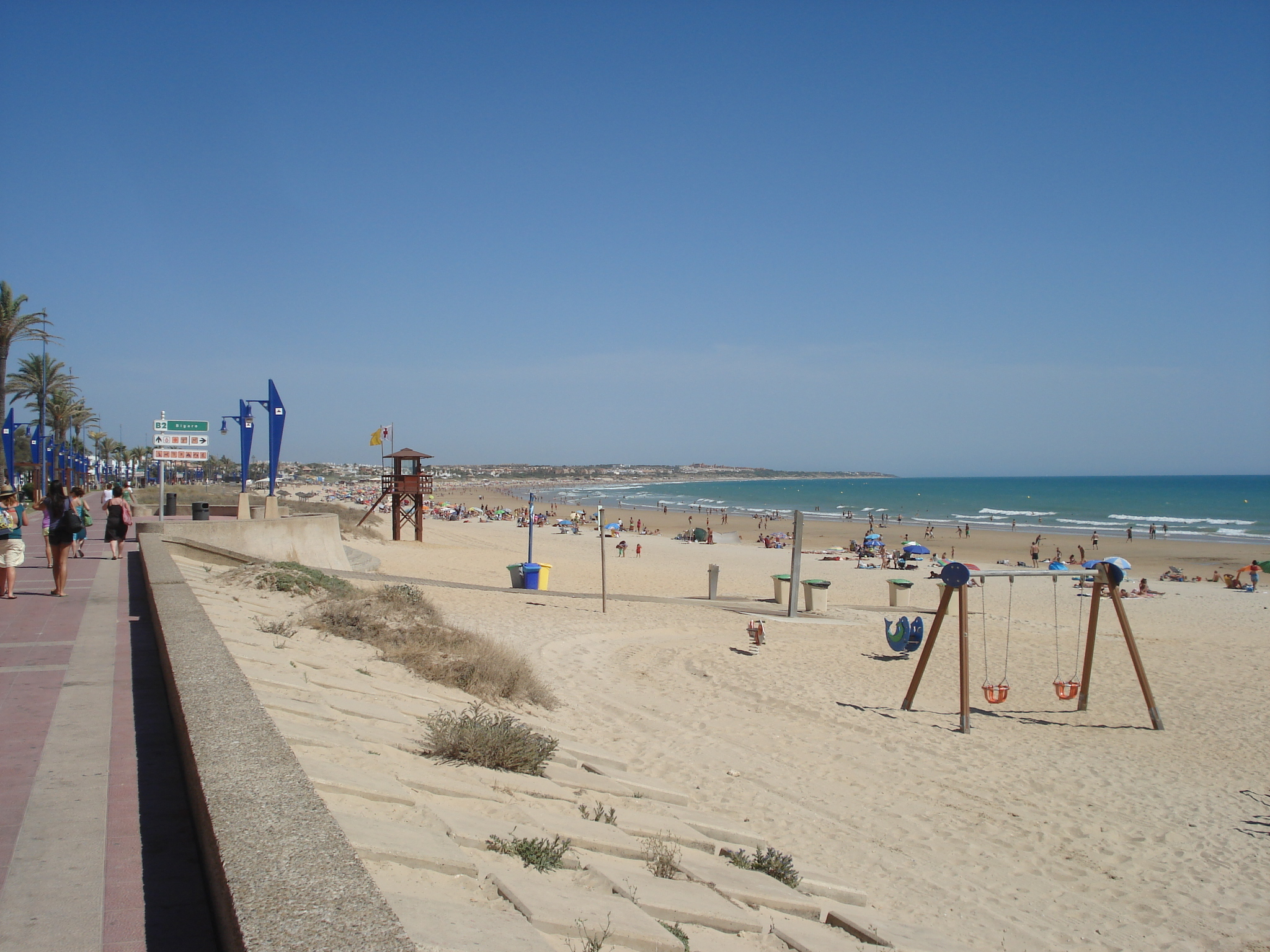 La Barrosa beach